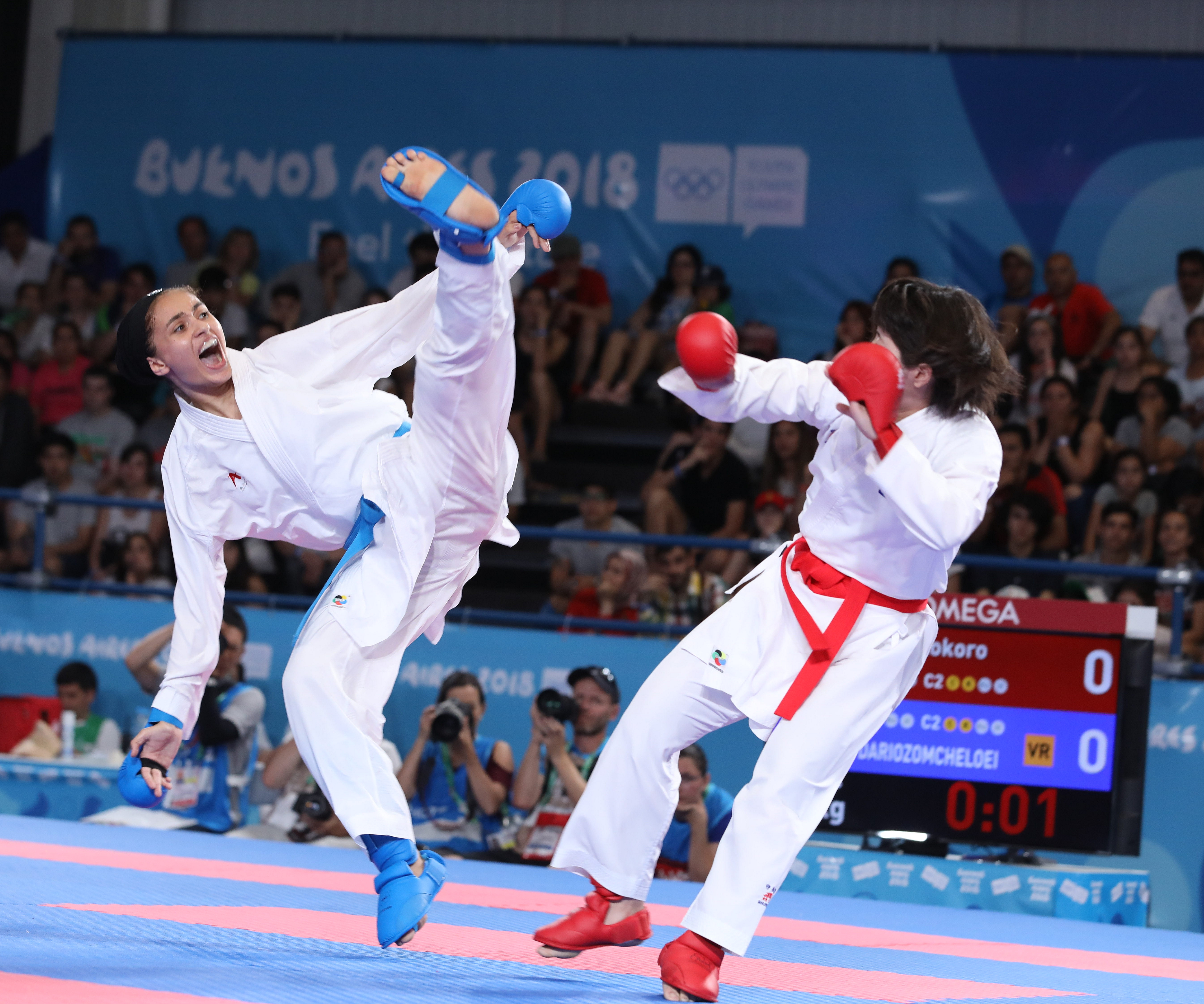 Karate, Semifinals: Japan vs Iran at 2018 Summer Youth Olympic Games.